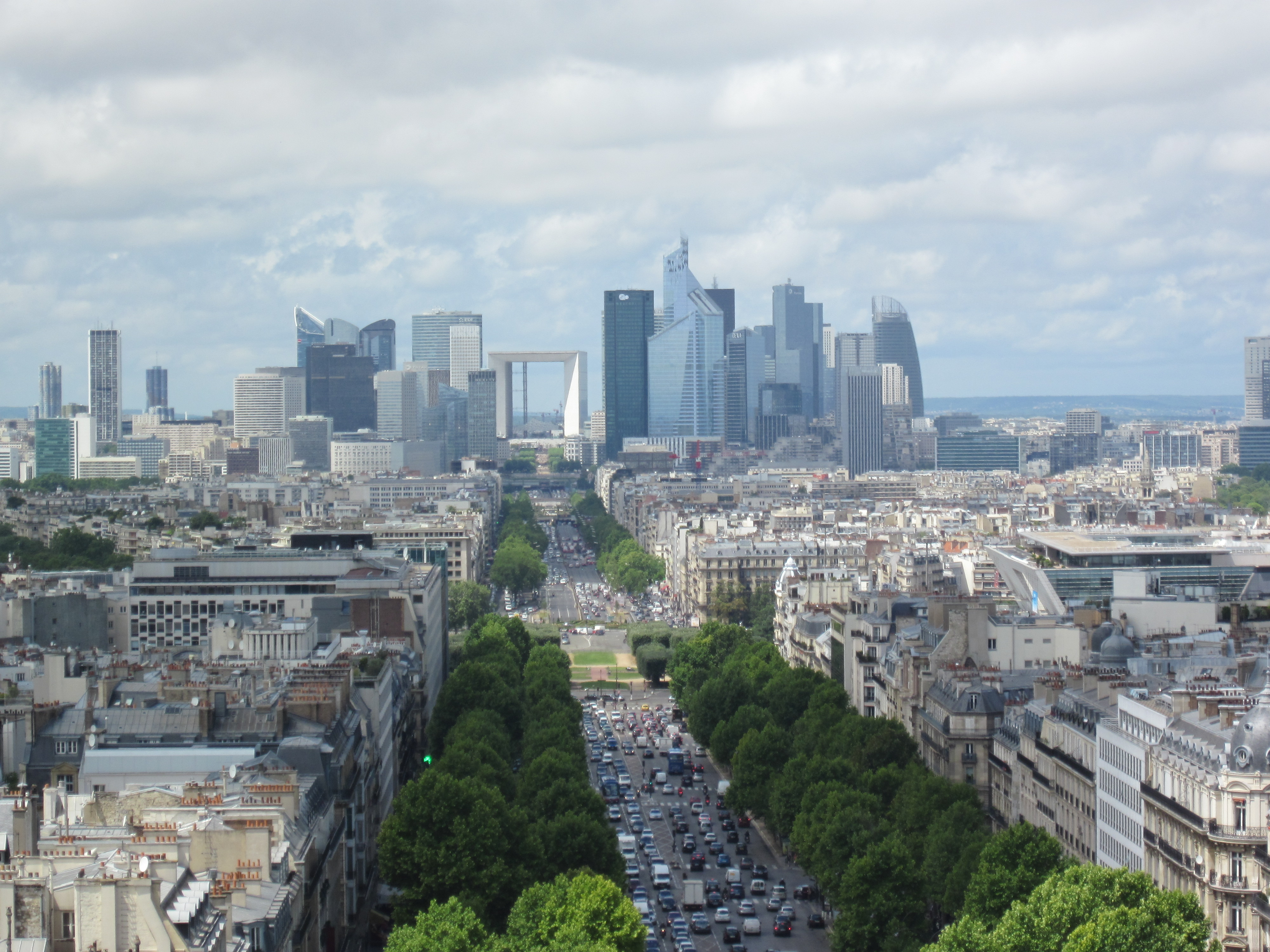 The skyscrapers of La Défense as seen from the Arc de Triomphe